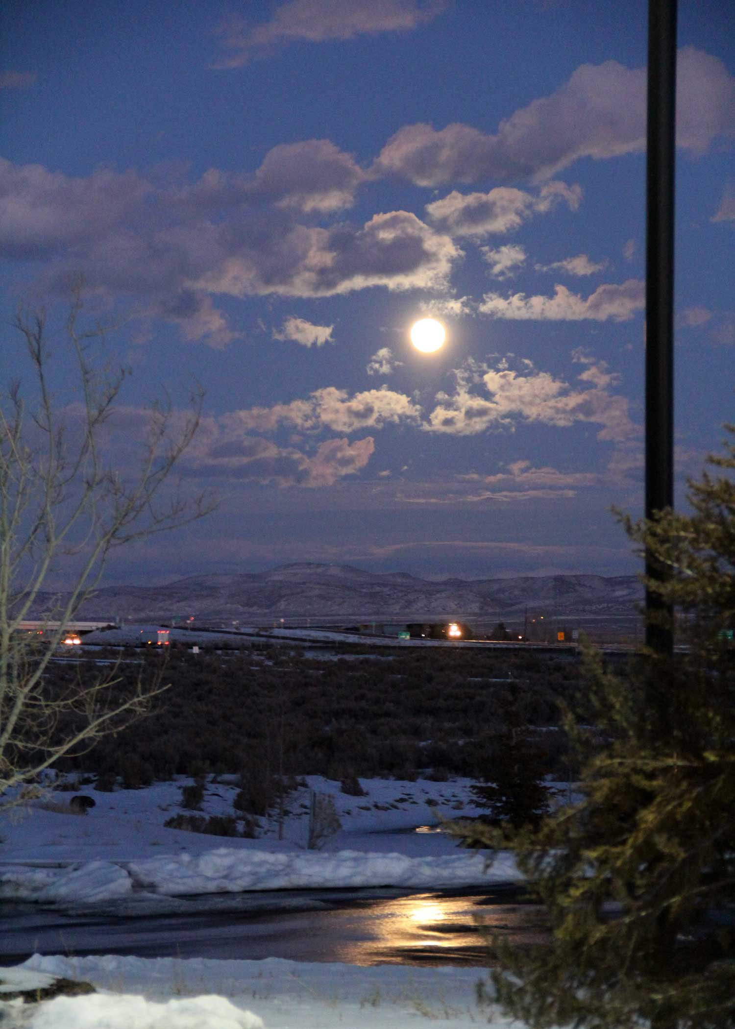 The moon glows over the parking lot of the California Trail Interpretive Center on January 26, 2013. This was the first hike in the 2nd annual moonlight snowshoe hike series presented by the Elko District BLM, the U.S. Forest Service and Cedar Creek Clothing of Elko.